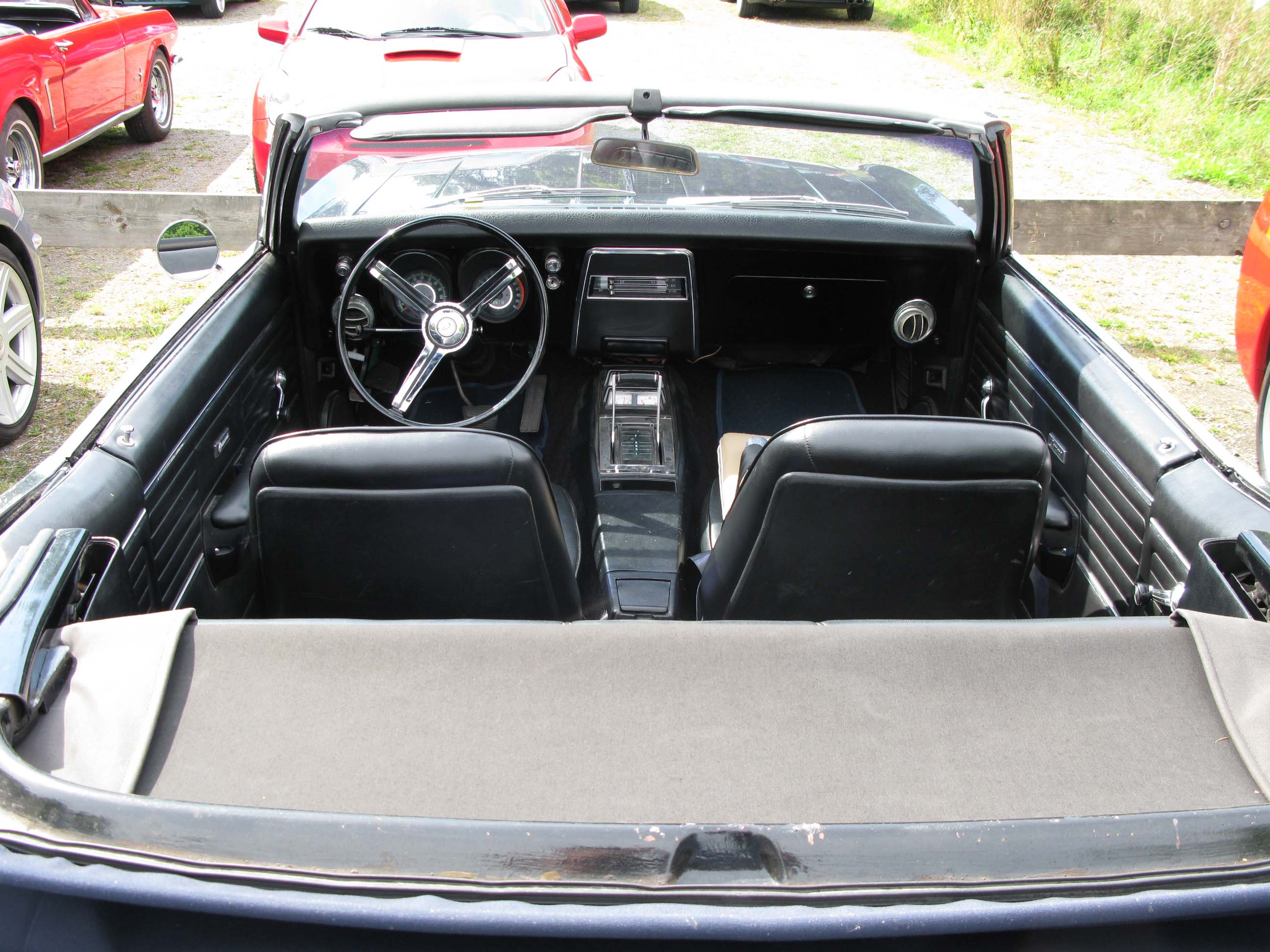 1968 Chevrolet Camaro interior.Event: Sportbilsdagen i Västervik 2012.